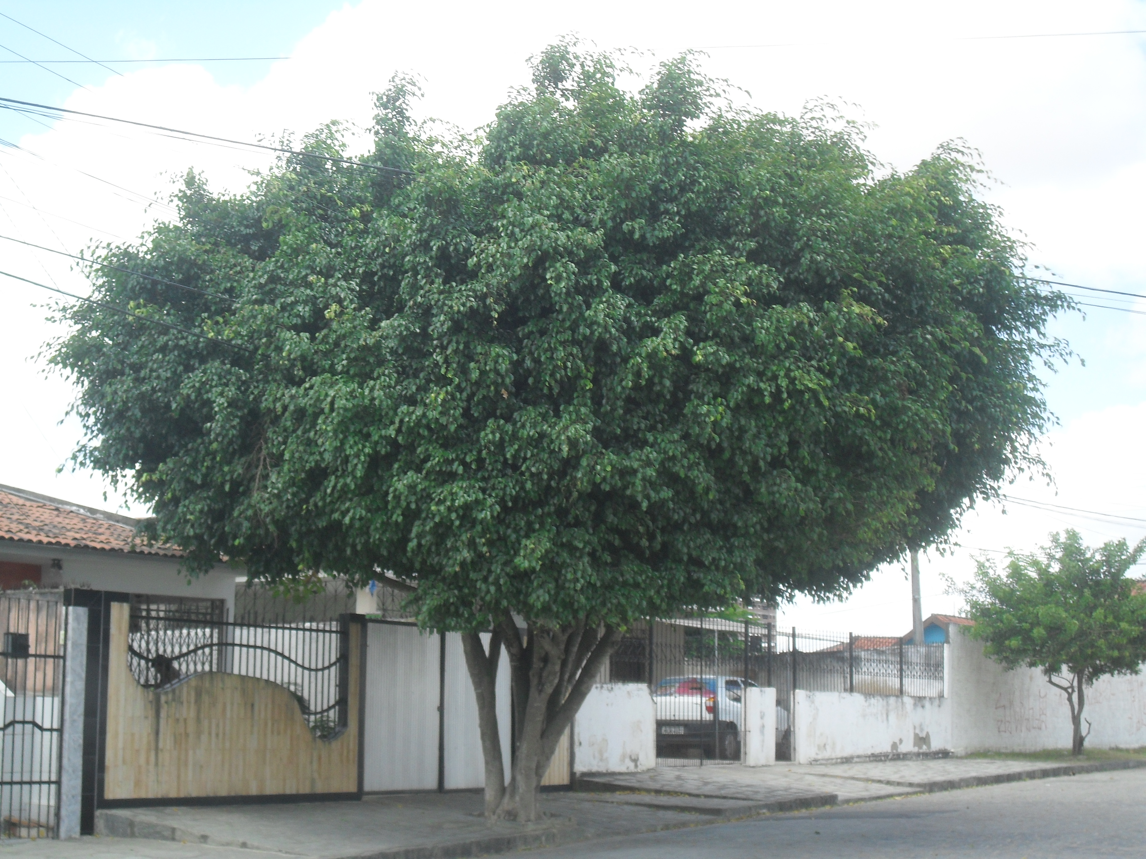 Cliptoria fairchildiana or Sombreiro.